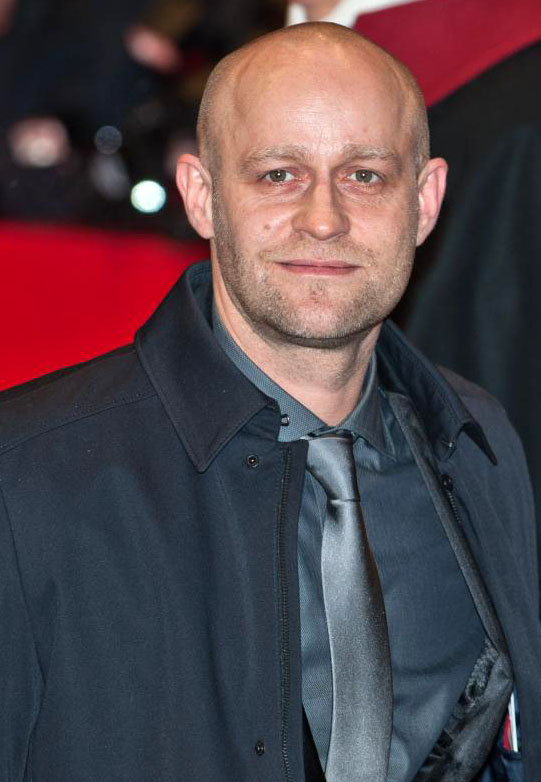 German actor Jürgen Vogel, Opening of the 62nd Berlin International Film Festival